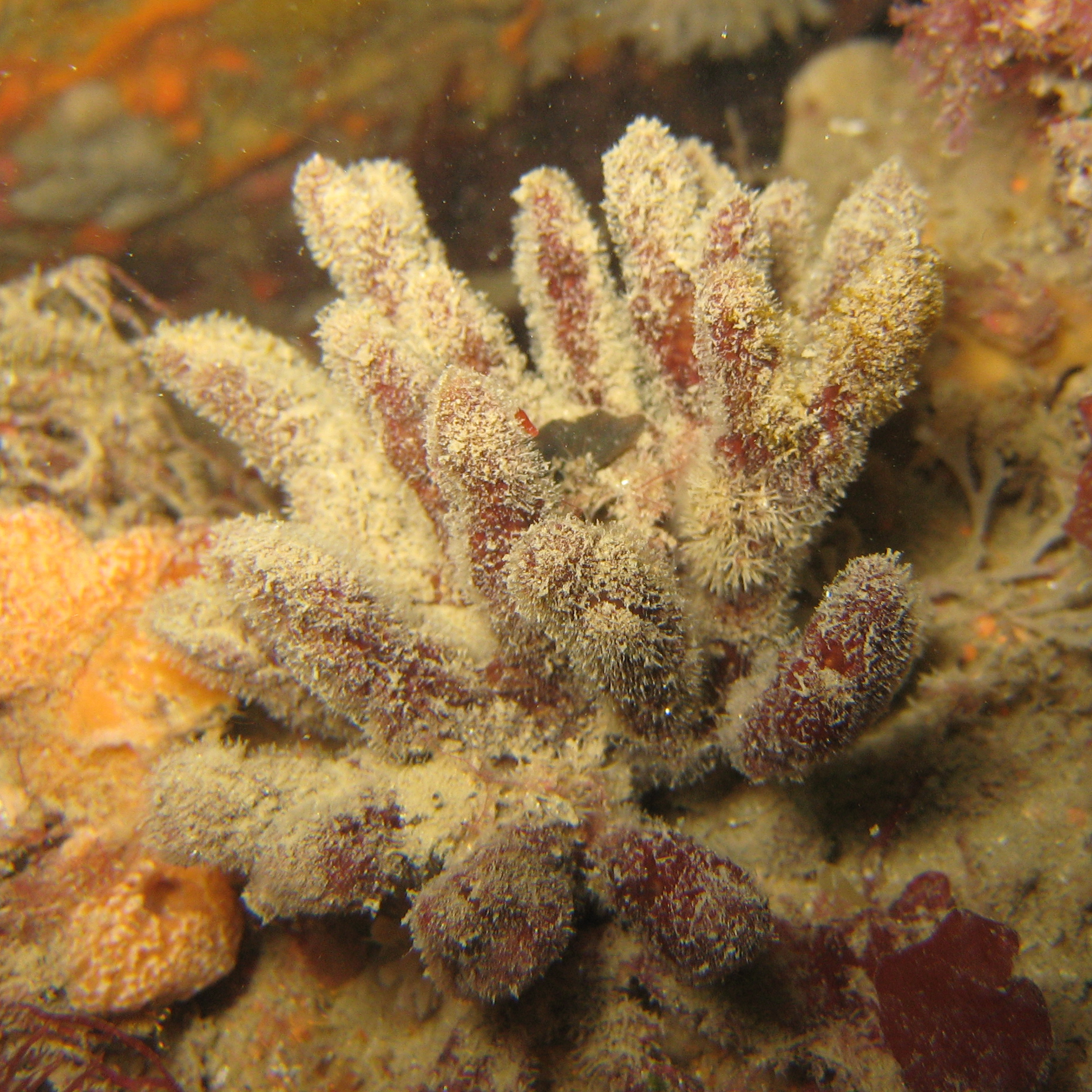 Raspailia ramosa in Carantec.